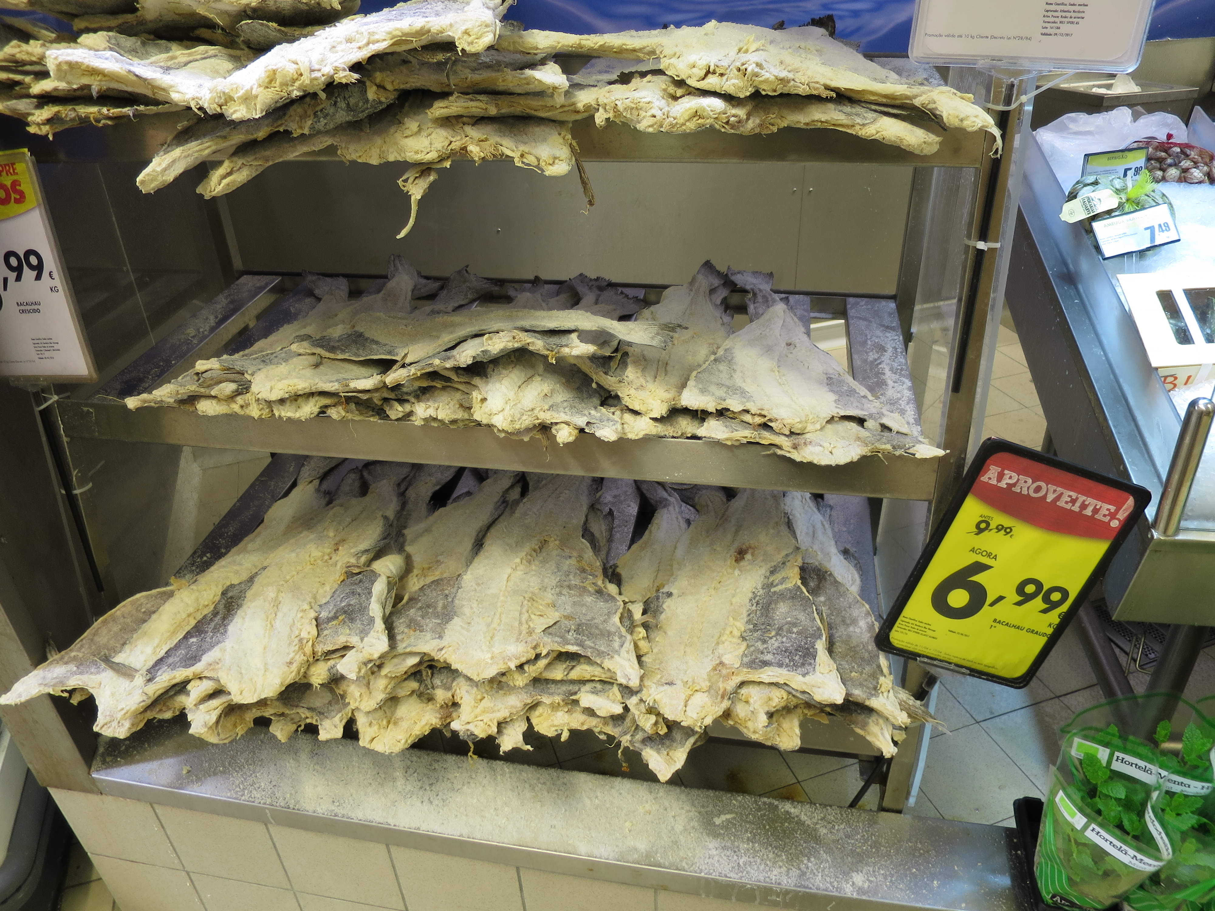 Bacalhau. Salted codfish in Lisbon, Portugal.